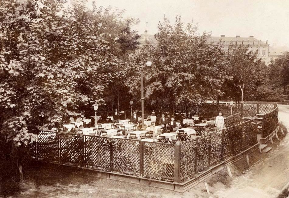 House of Germans, Brno, Czech Republic